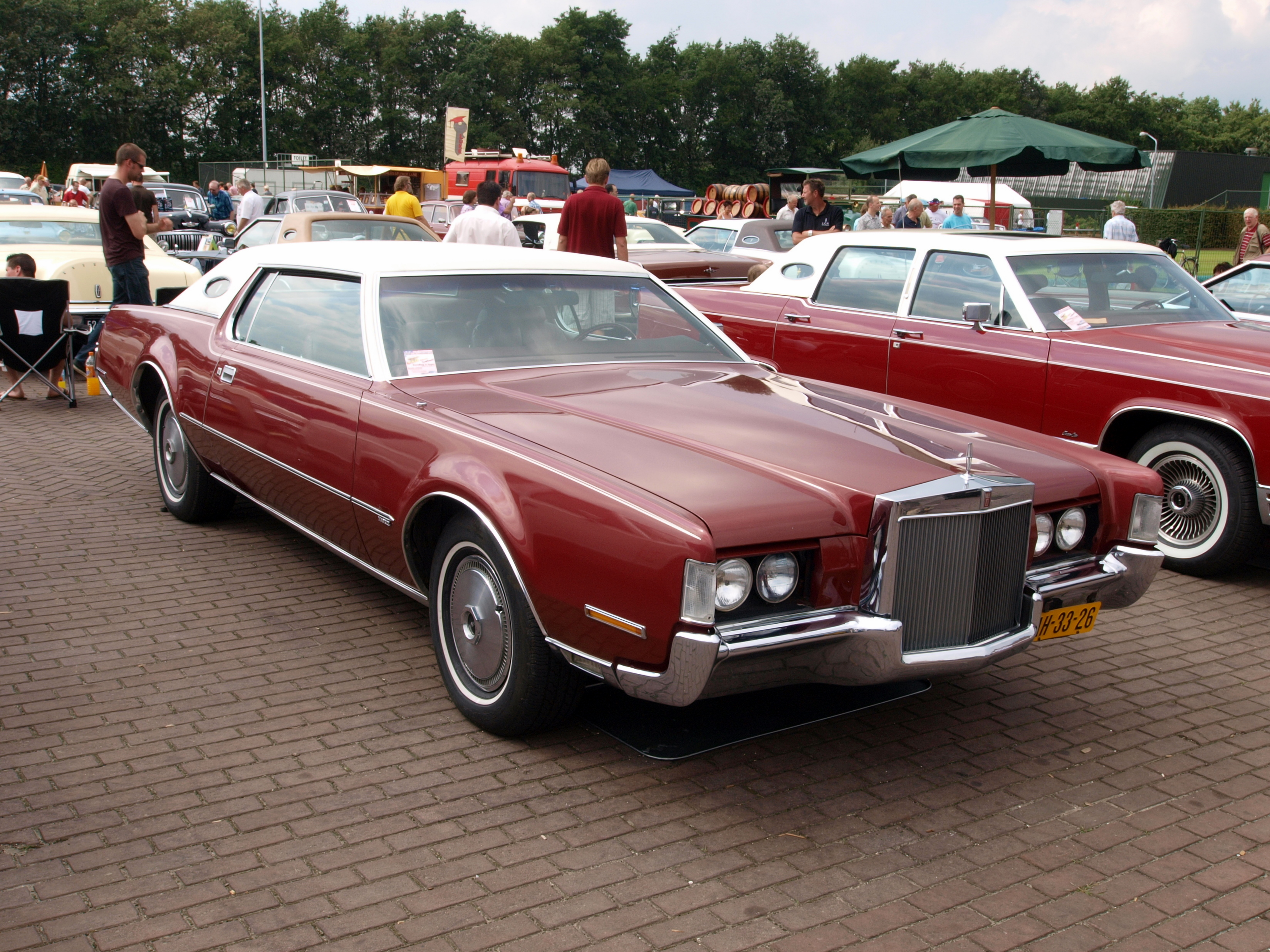 Photographed at the 2010 Autotron Classic car meeting, Rosmalen, The Netherlands. OLYMPUS DIGITAL CAMERA